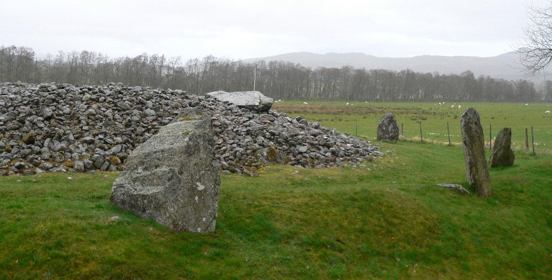 Corrimony Chambered Cairn, Corrimony, Scotland